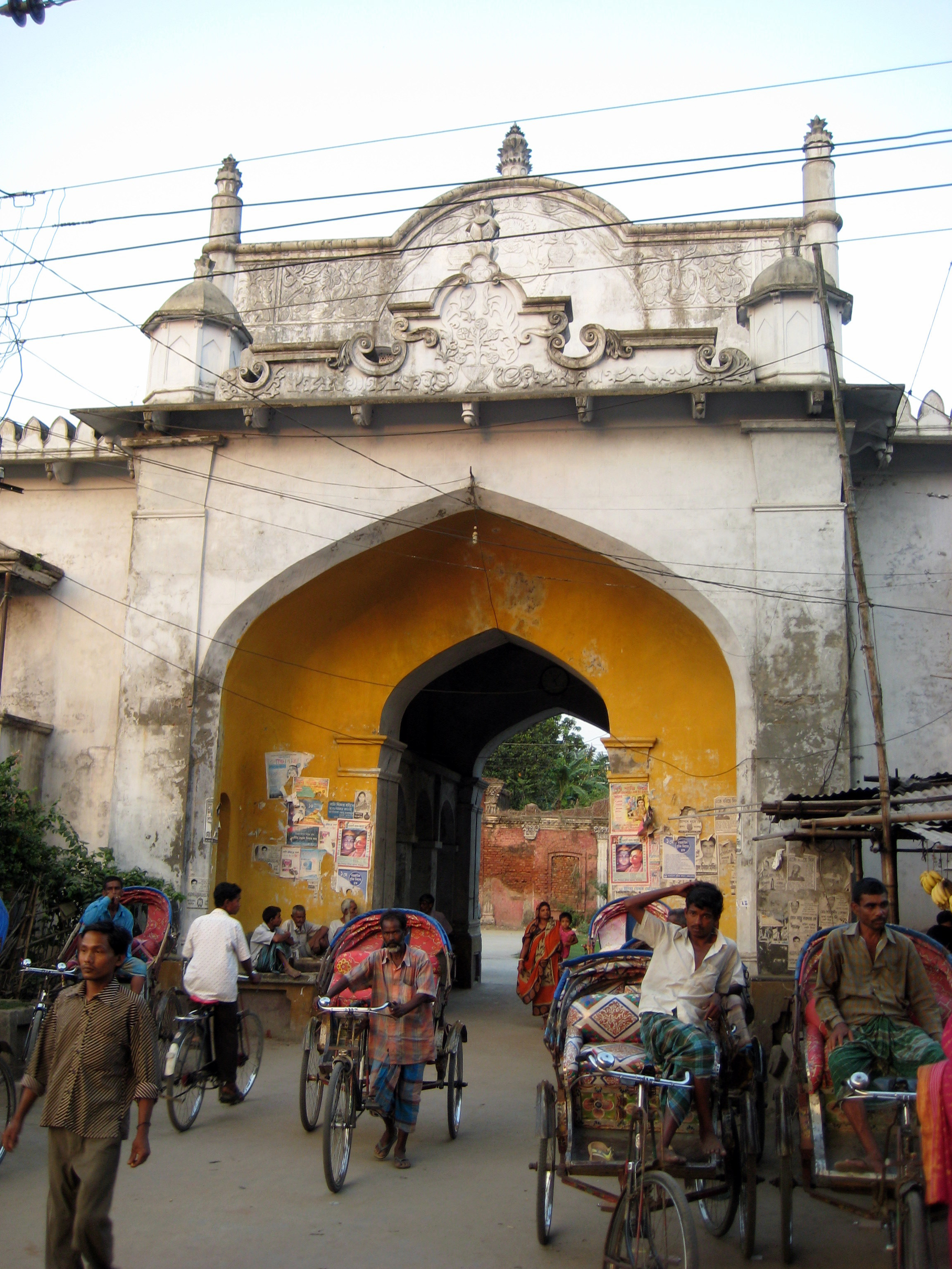 Tales of history says that Raja Dinaj or Dinaraj is the founder of the Dinajpur Rajbari. But others say that after usurping the Ilyas Shahi rule, the famous Raja Ganesh of the early 15th century was the real founder of this house . At the end of the 17th century Srimanta Dutta Chaudhury became the zamindar of Dinajpur and after him, his sister's son Sukhdeva Ghosh inherited the property as Srimanta's son had a premature death.